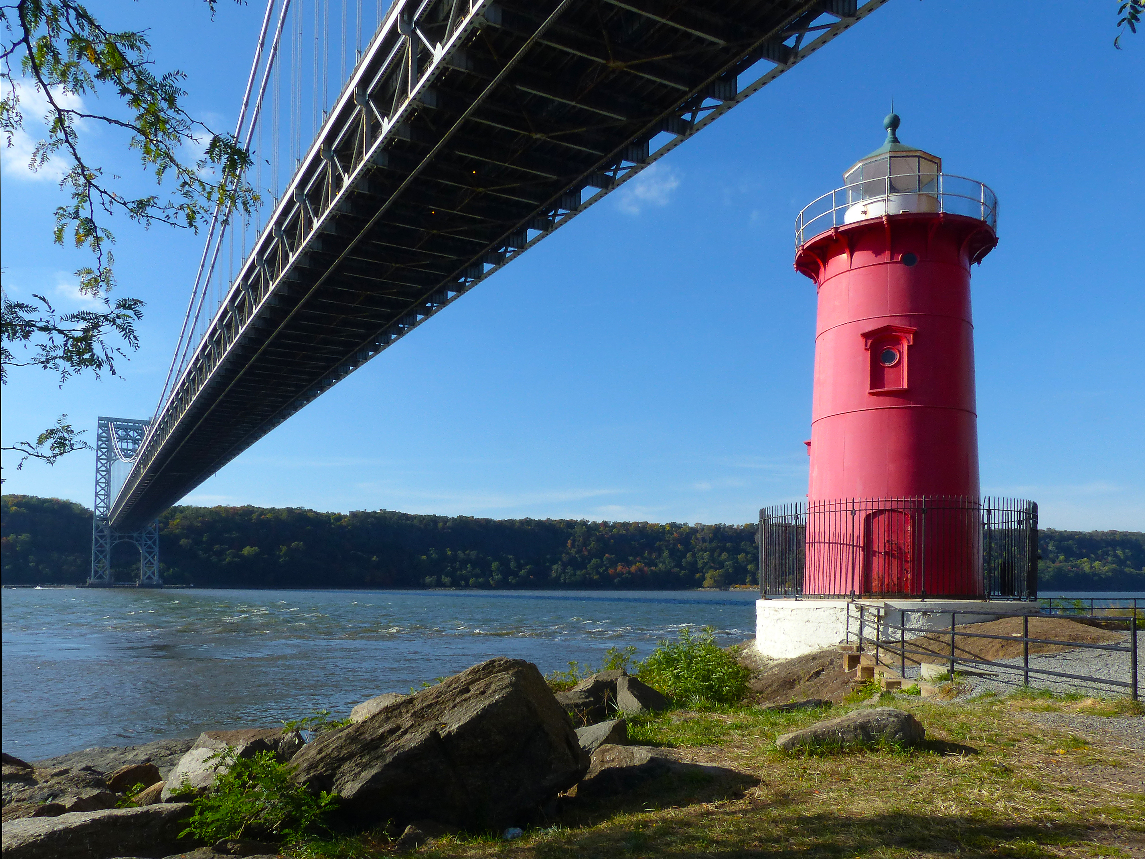 Little Red Light House under George Washington Bridge. Site: Little Red Lighthouse